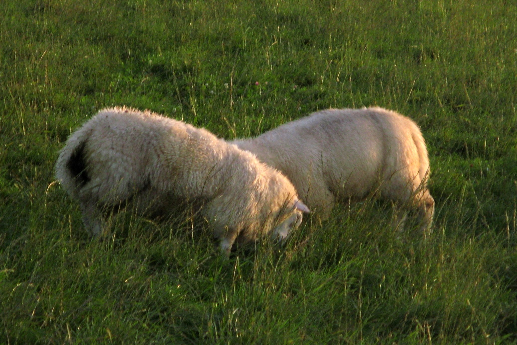 Sheep having a fight in Hellschen-Heringsand-Unterschaar, Schleswig-Holstein, Germany